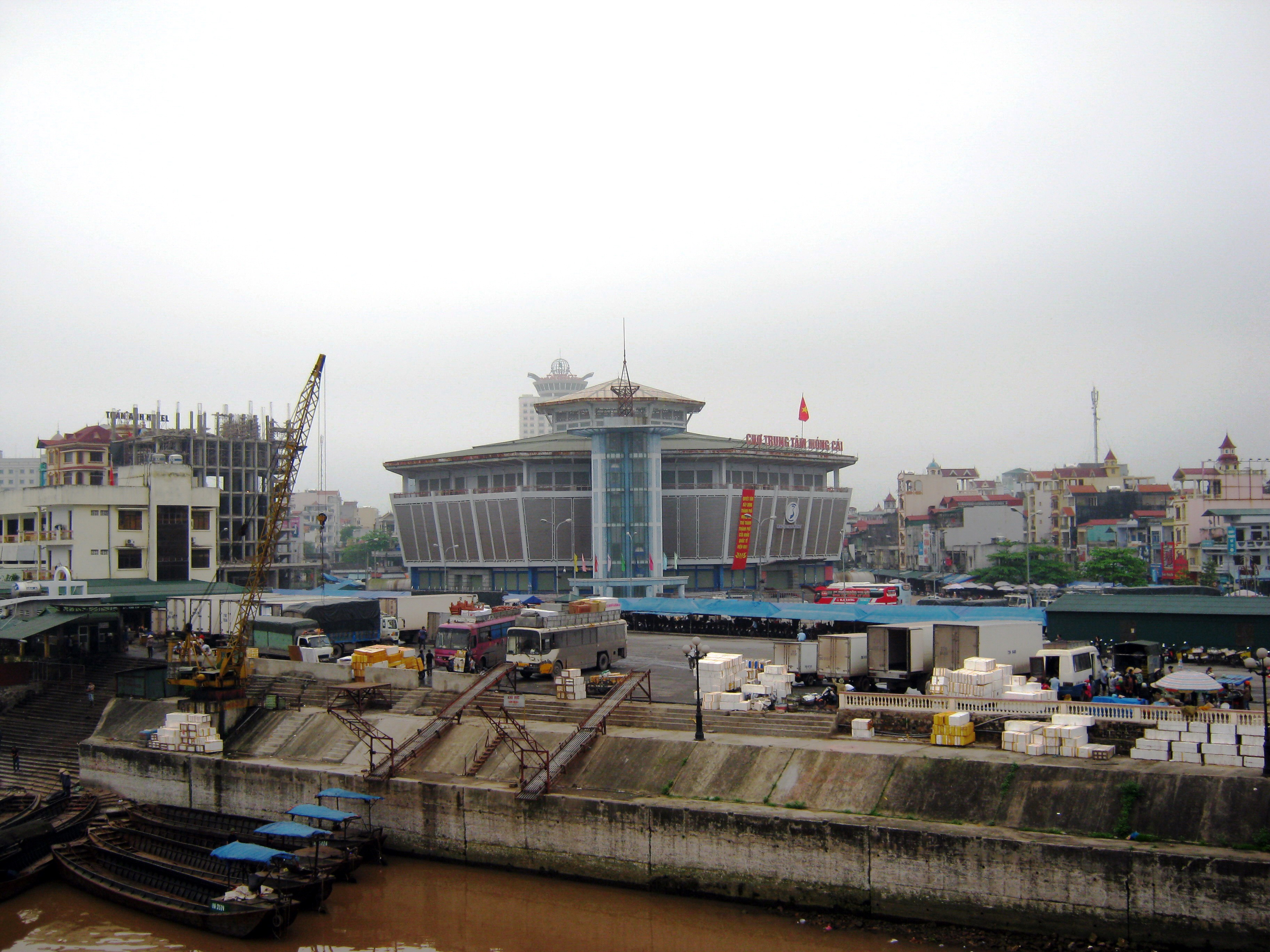 Một bến cảng của thành phố Móng Cái bên bờ sông Ka Long (Quảng Ninh, Việt Nam).